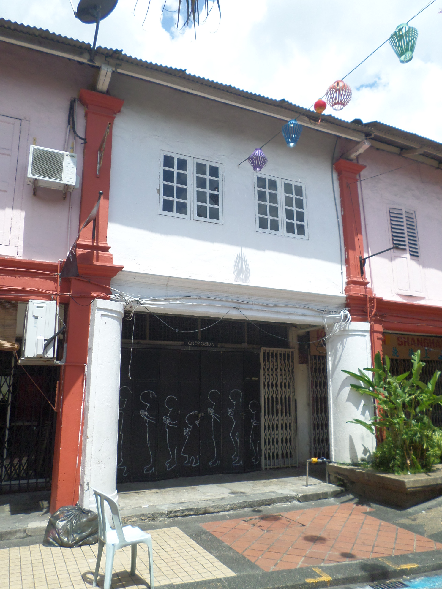 Art 52 Gallery, Chinatown, Johor Bahru, Johor, Malaysia